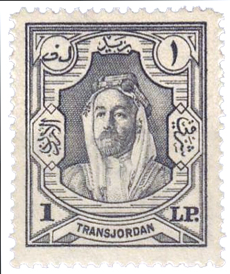 Postage stamp, Transjordan, 1930: King Abdullah I.